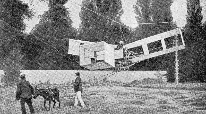 Alberto Santos Dumont airplane being towed by a donkey.